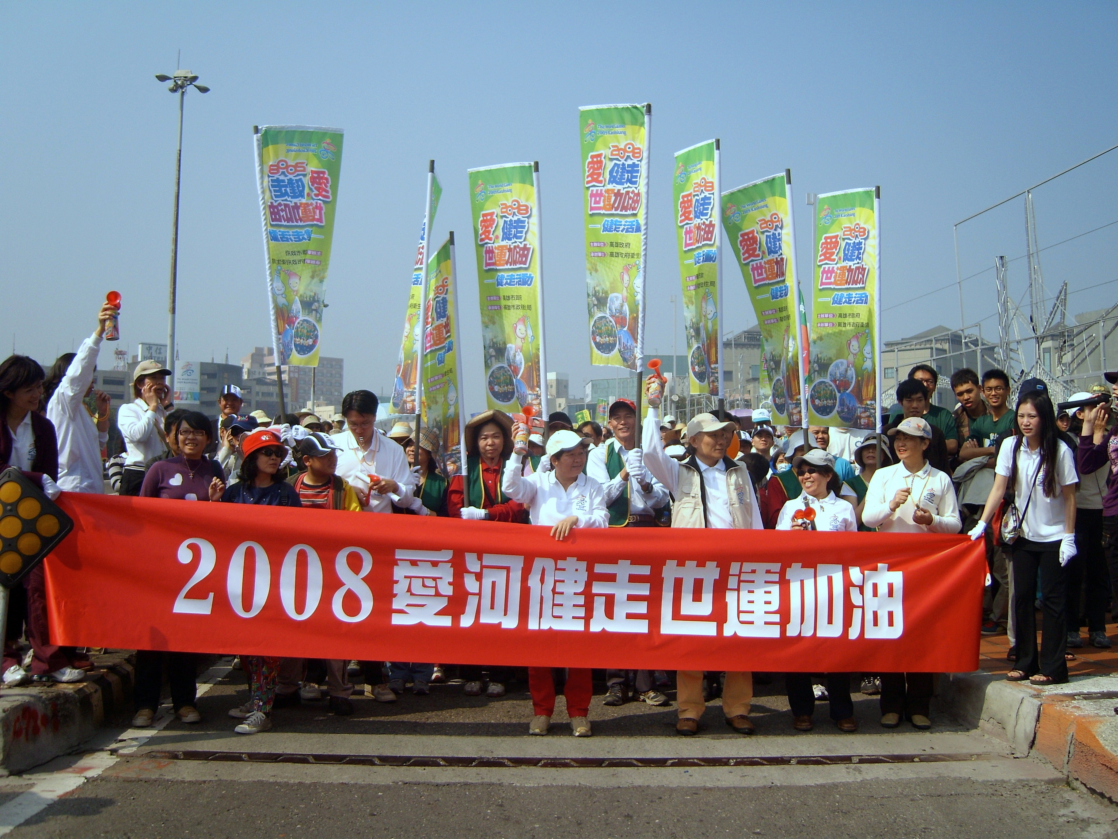 2008 Tour de Taiwan - Stage 1 in Kaohsiung: Site Event - Walking for World Games 2009.